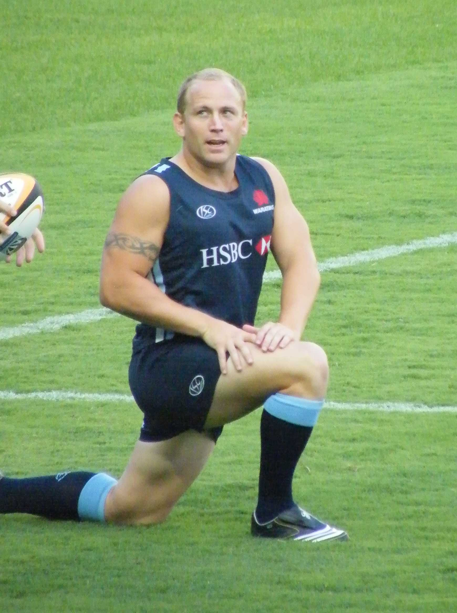 Waratahs Fly Half Brett Sheehan.